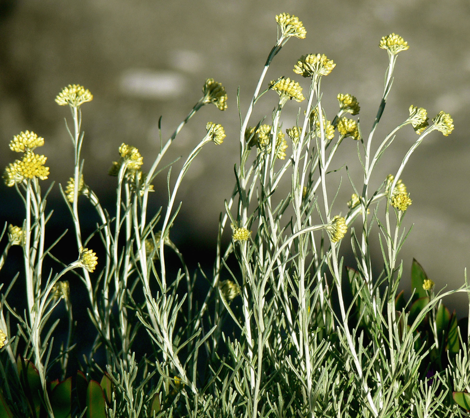 Curry Plant; Flowers in spring, growing on littoral (here : North of the west part of "Isola d'Elba", Italia (National parc); Near "Capo San Andrea" (San Andrea Point)